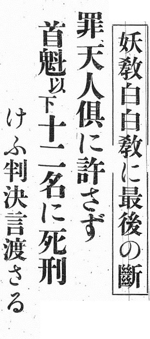 Keijo Nippo newspaper clipping (6 April 1940 issue)